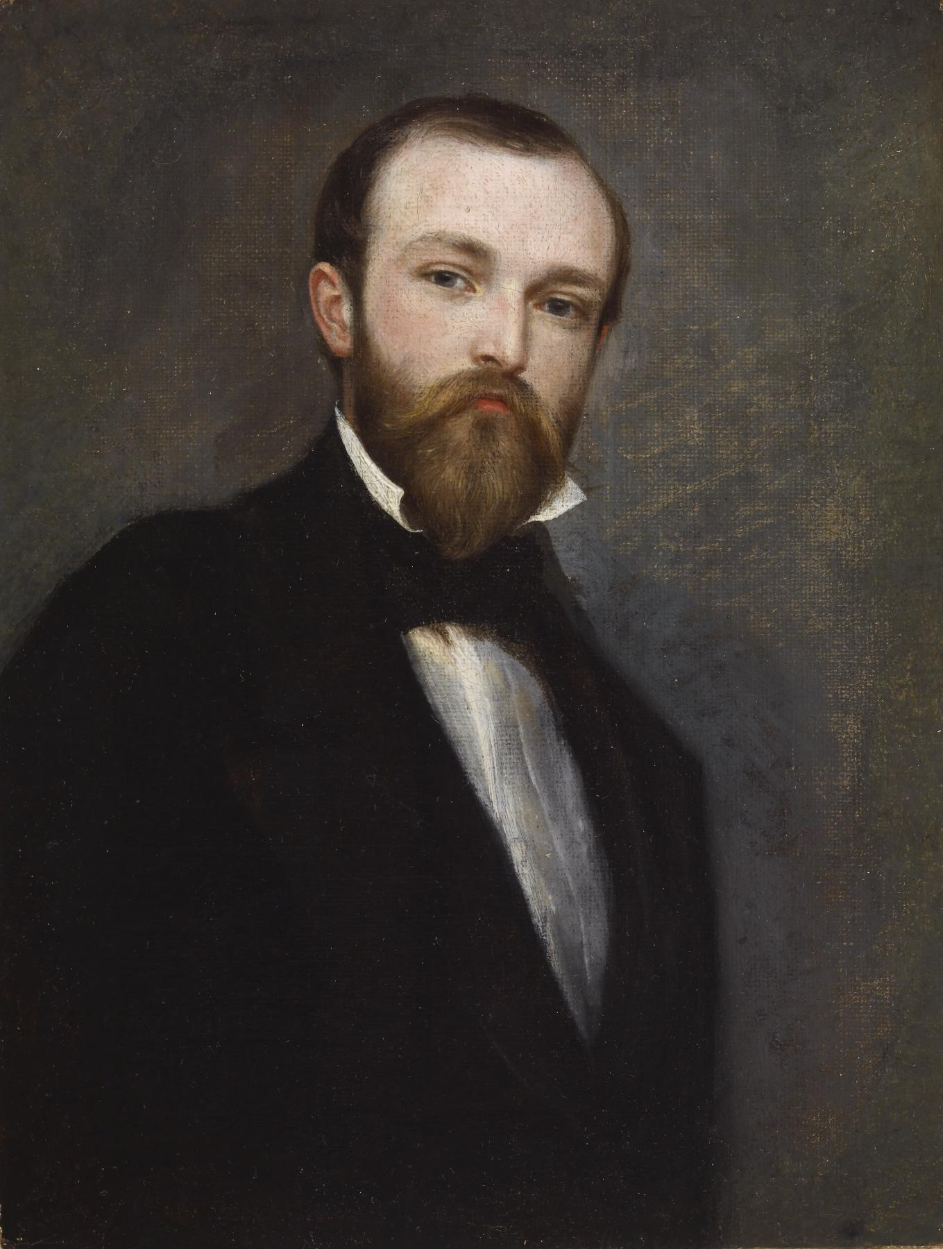 Woodville was born into a prosperous Baltimore family. Having access to the art holdings of Robert Gilmor, Jr., one of the city's pioneer art collectors, he had the opportunity to become familiar with Dutch and Flemish paintings showing domestic scenes of people in interiors. Woodville trained in Düsseldorf, Germany, and remained abroad for the remainder of his career, although he continued to exhibit his scenes of daily life in America at the Art Union in New York. At the age of 30, he died of an overdose of morphine. Woodville appears to have painted this self-portrait while looking into a mirror.